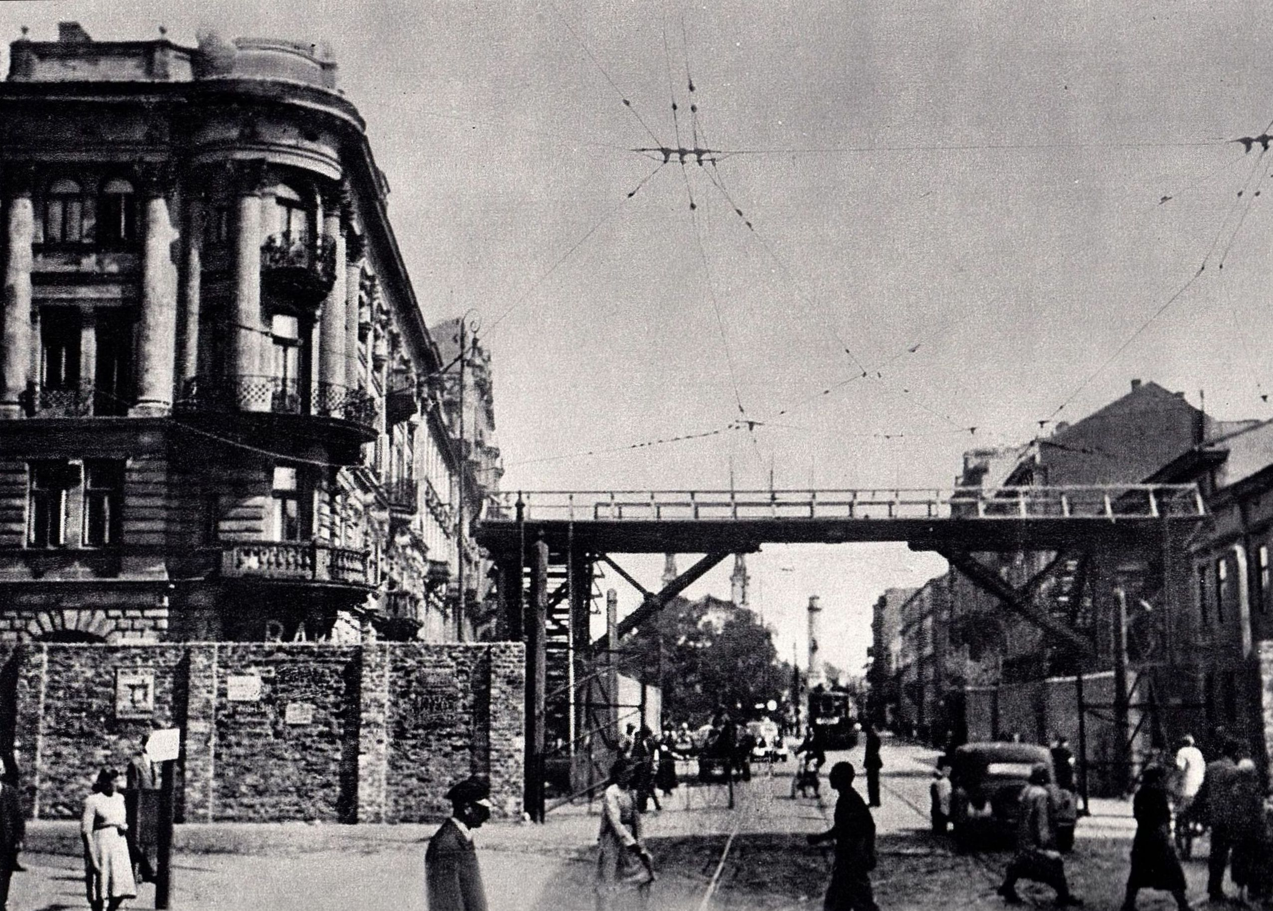 Warsaw Ghetto. Footbridge over Chłodna Street viewed to the east